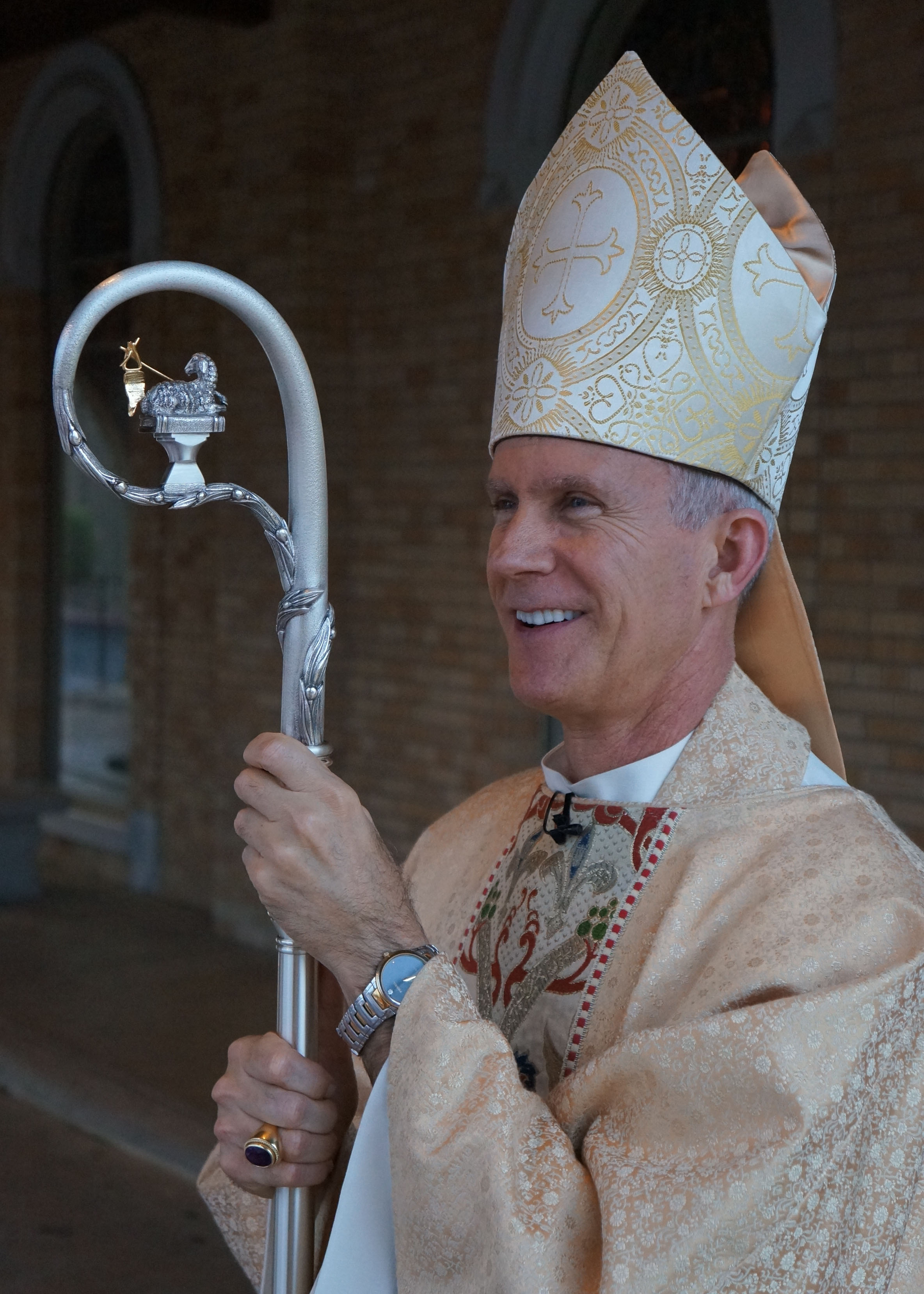 Bishop Joseph Strickland of the Roman Catholic Diocese of Tyler taken on Easter 2013